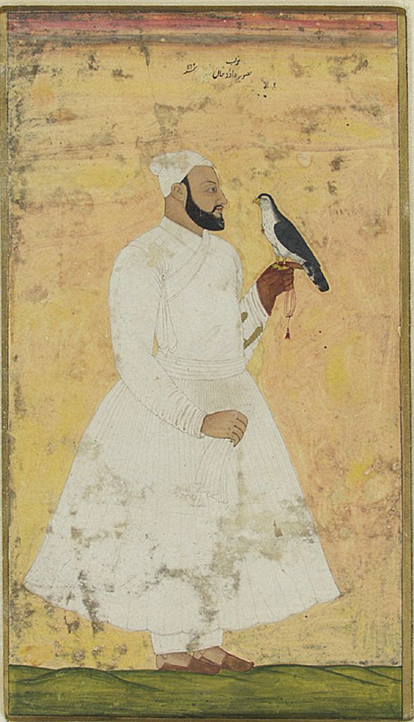 Gentleman and Falcon (portrait of Navab Daud Khan), Mughal India, created in Hyderabad, Deccan, India